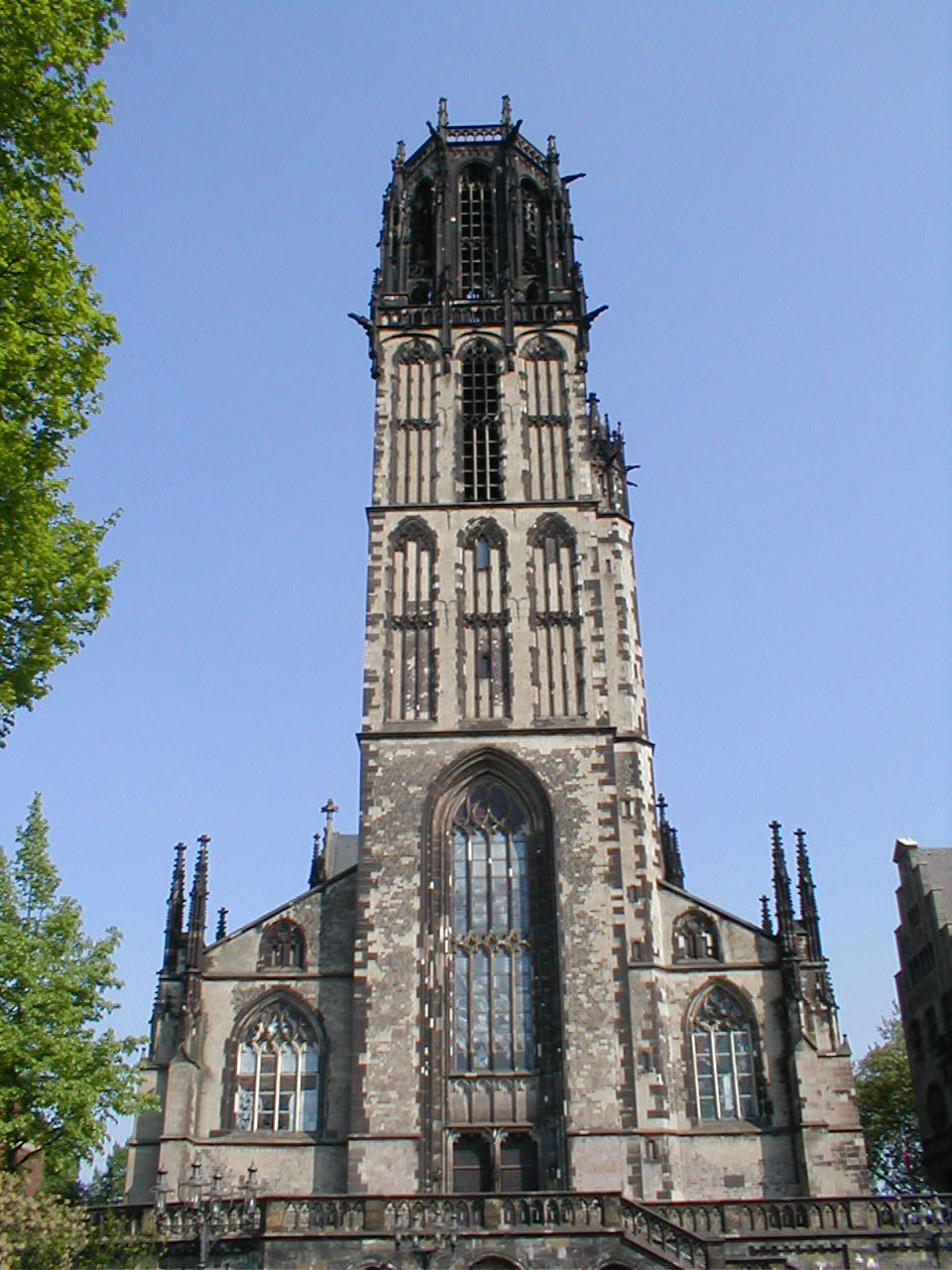 Salvatorkirche